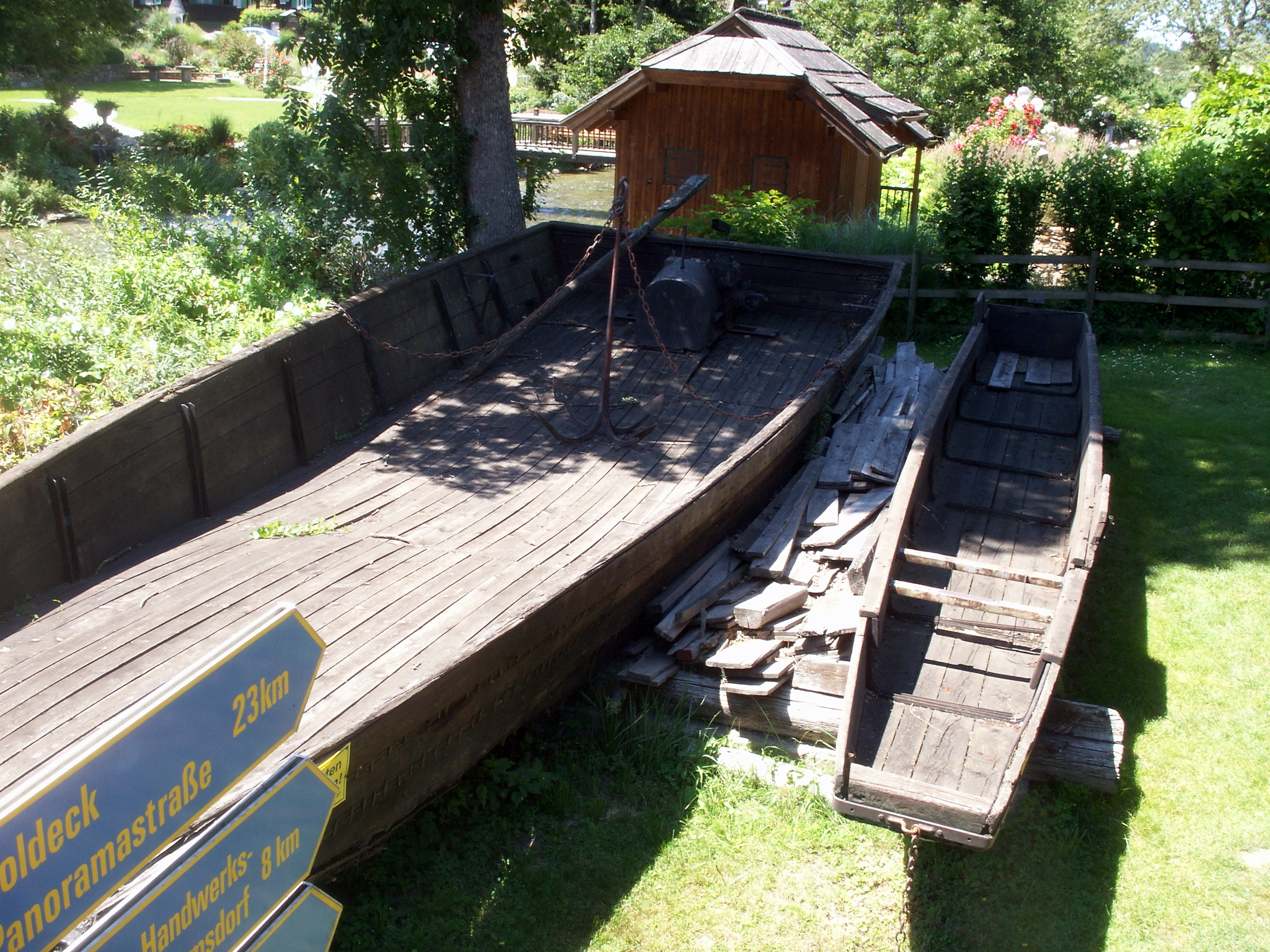 Boats beside the old fisherman house near lake Millstatt in Seeboden / Carinthia / Austria / European Union, currently a fisheries museum. 2008, the museum was sold by the Museum of Folk Culture (Spittal / Drau) to the community Seeboden, which it closed immediately. 26th August 2011 because it was the private initiative of the families Karl Winkler (tree nursery) and Cattina and Wolfgang Leitner (Royal Camp X) re-opened. The community has not protected the Plätte during the winter. Therefore, it was in June 2010, disposed of as "rotten".